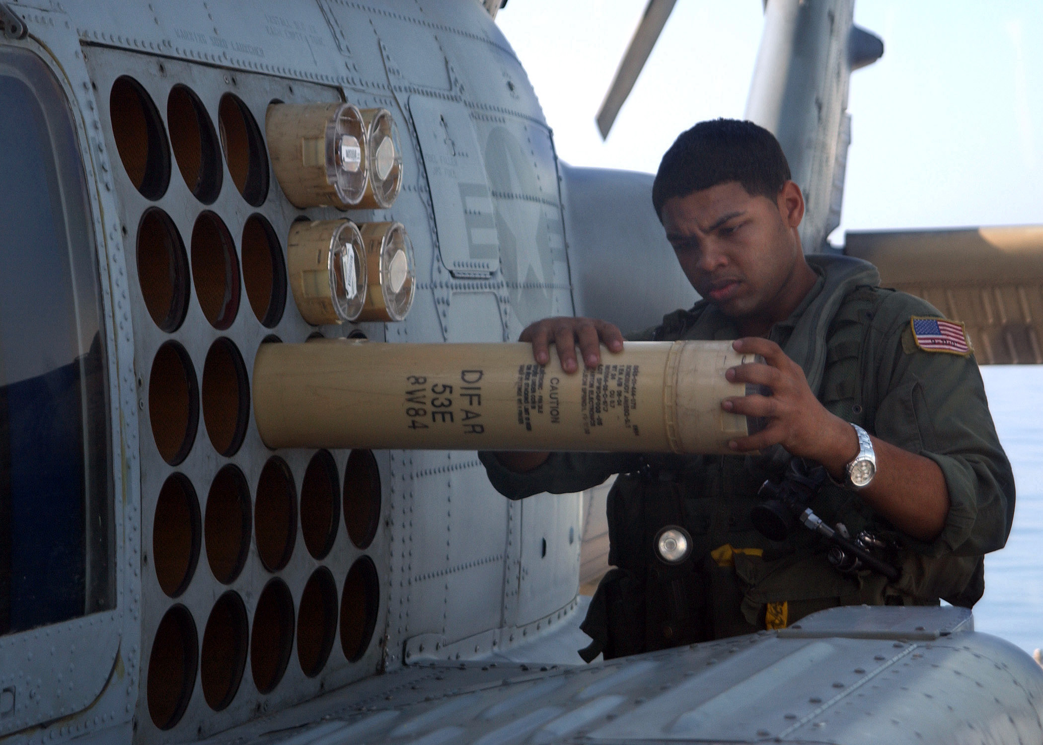 Aviation Warfare Systems Operator 3rd Class Esmelin Villar, assigned to Helicopter Anti-Submarine Squadron Light Three Seven (HSL-37), inspects a sonobouy prior to the flight of his SH-60B Seahawk helicopter aboard the Hawaii-based guided missile cruiser USS Chosin (CG 65). Chosin and embarked HSL-37 are deployed to the region to conduct maritime security operations (MSO) in the North Arabian Gulf.